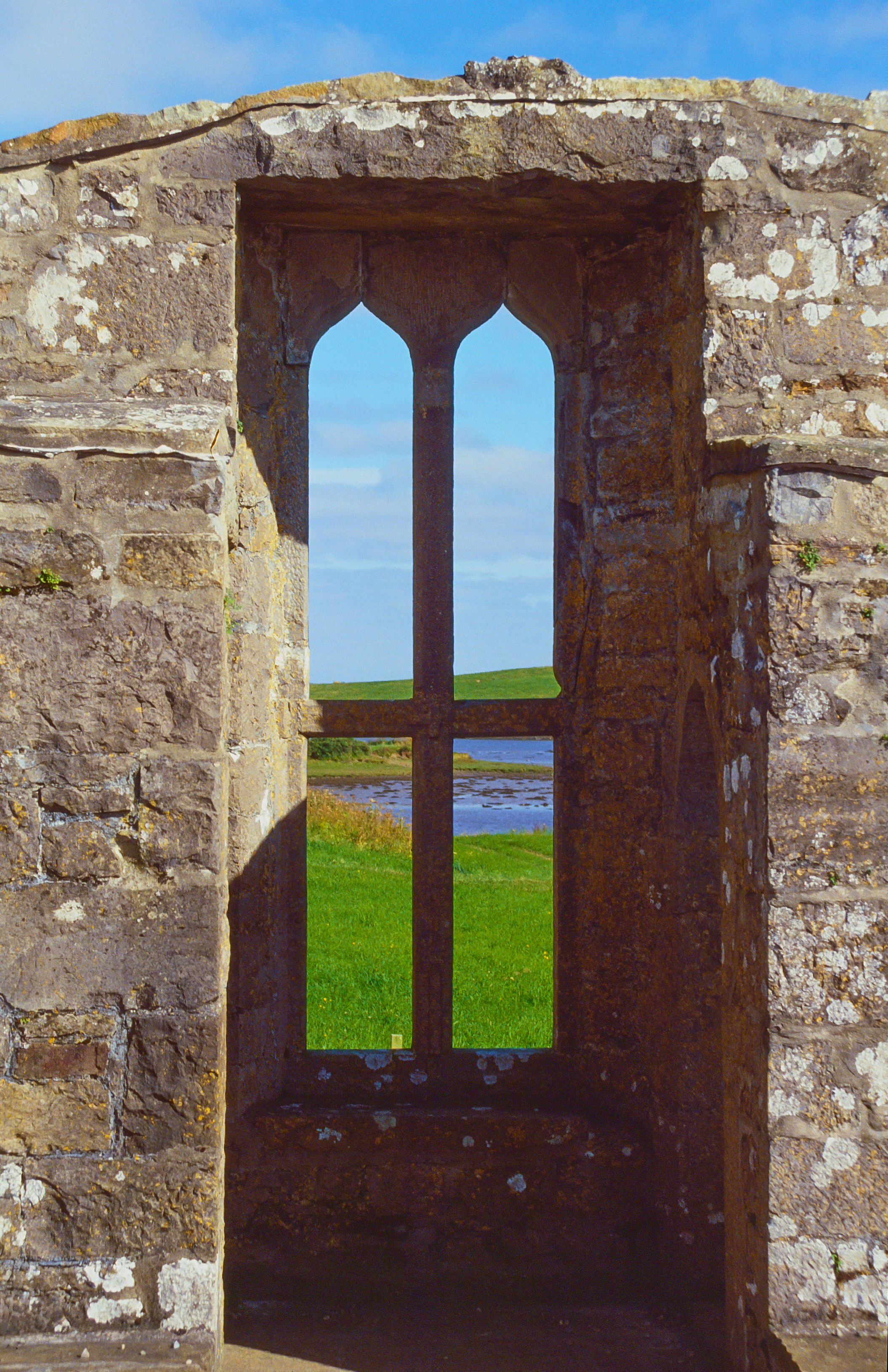 Two-light, ogee-headed window in the north gable of the dormitory, providing a view of River Moy.